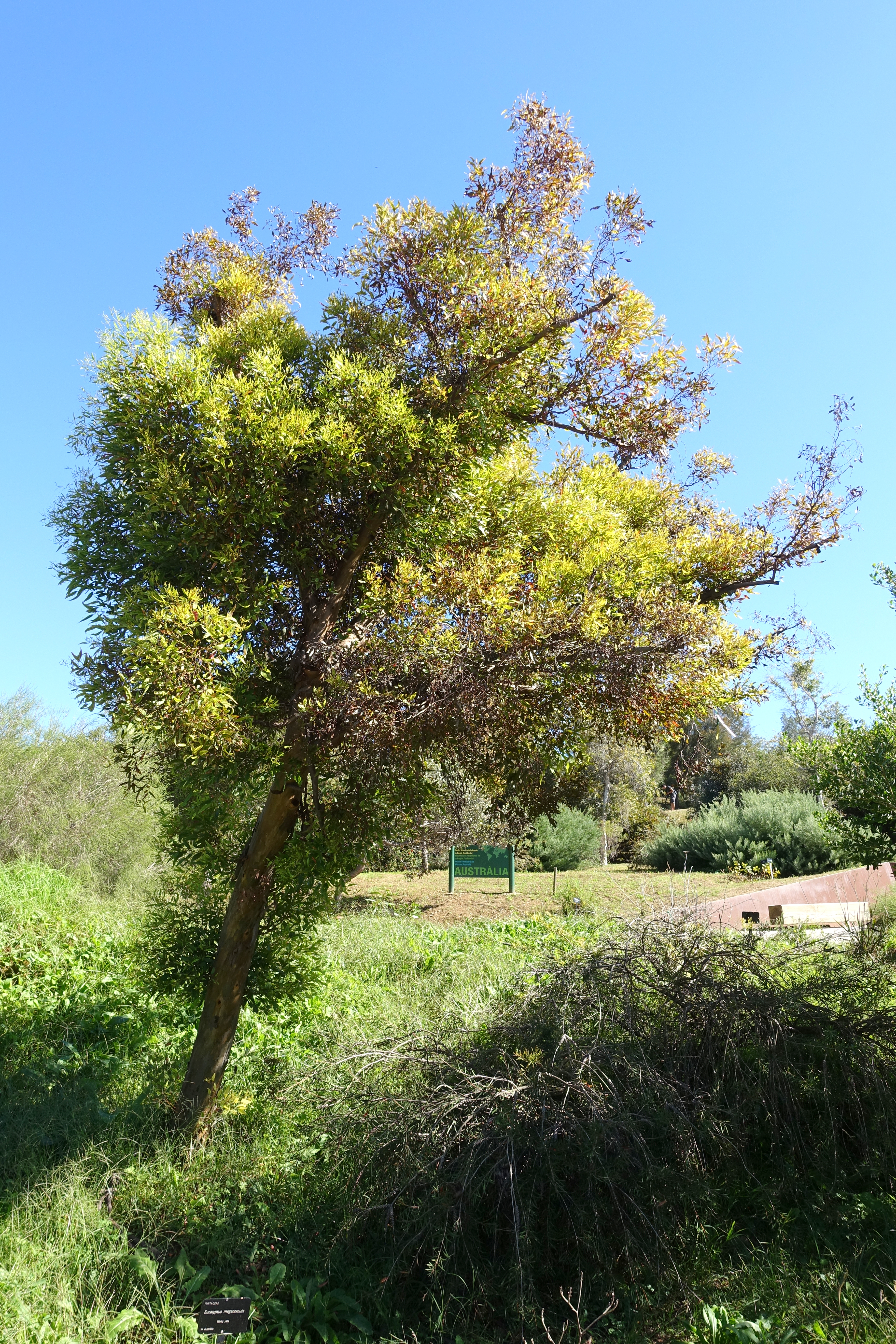 Botanical specimen in the Jardín Botánico de Barcelona - Barcelona, Spain.